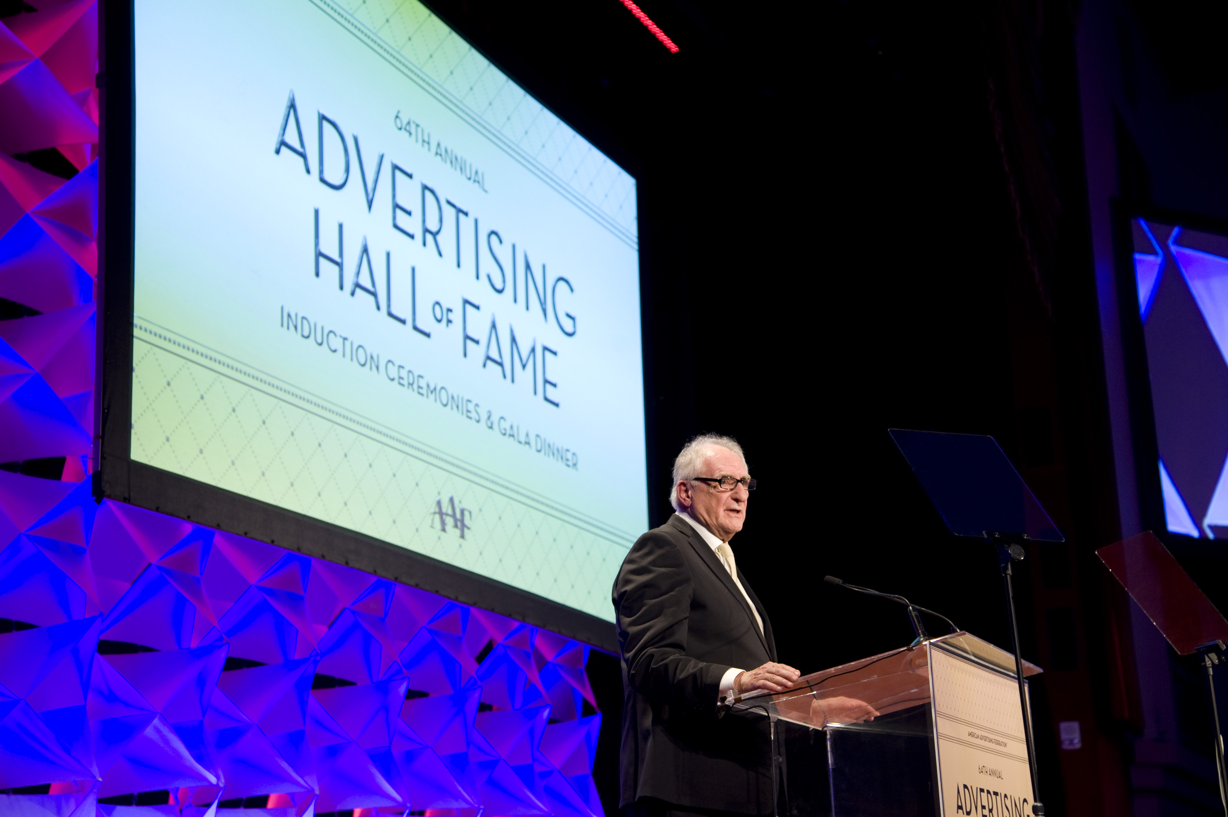 Giraldi at hi Advertising Hall of Fame Induction.